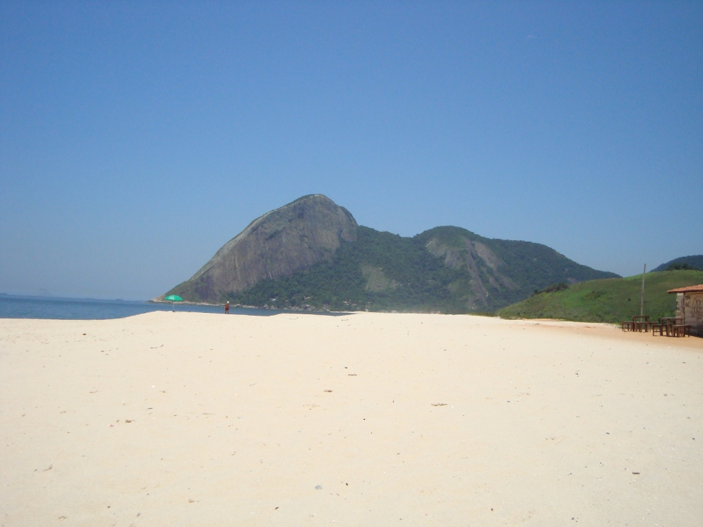 Itaipuaçu beach, Maricá, Rio de Janeiro, Brasil.